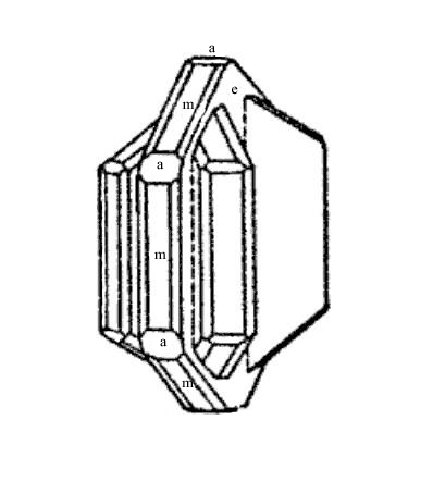 Tridymite - twinned crystal